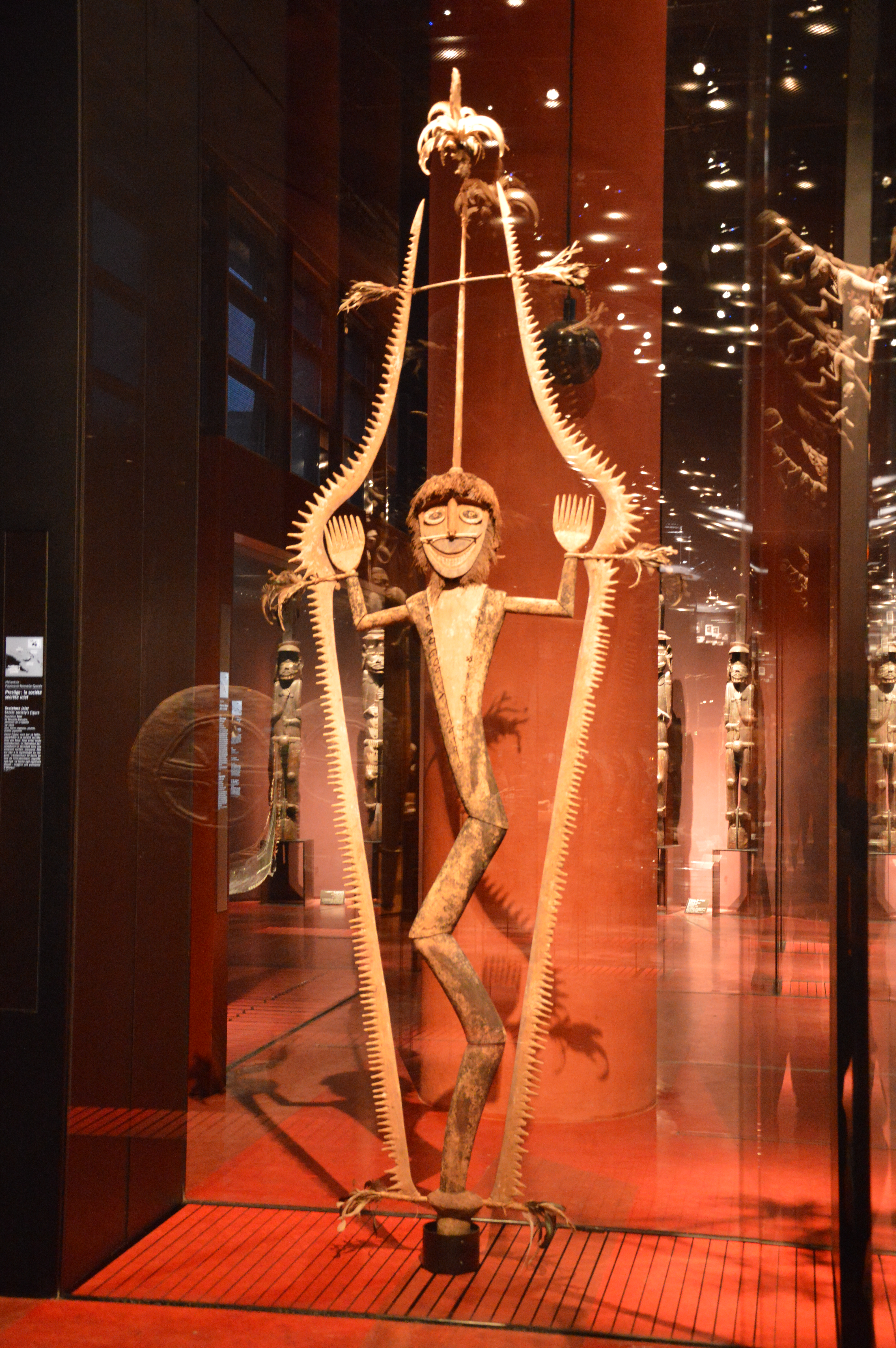 Tolai sculpture from the Gazelle Peninsula, New Britain, Papua New Guinea: made from wood, fiber crop, feathers, scale plates, pigments (19th century; Musée du quai Branly, Paris; Original + Description).